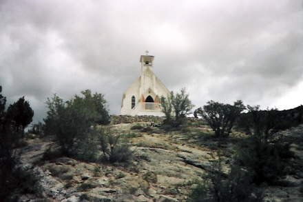 Our Lady of Tears, Silver City, Idaho